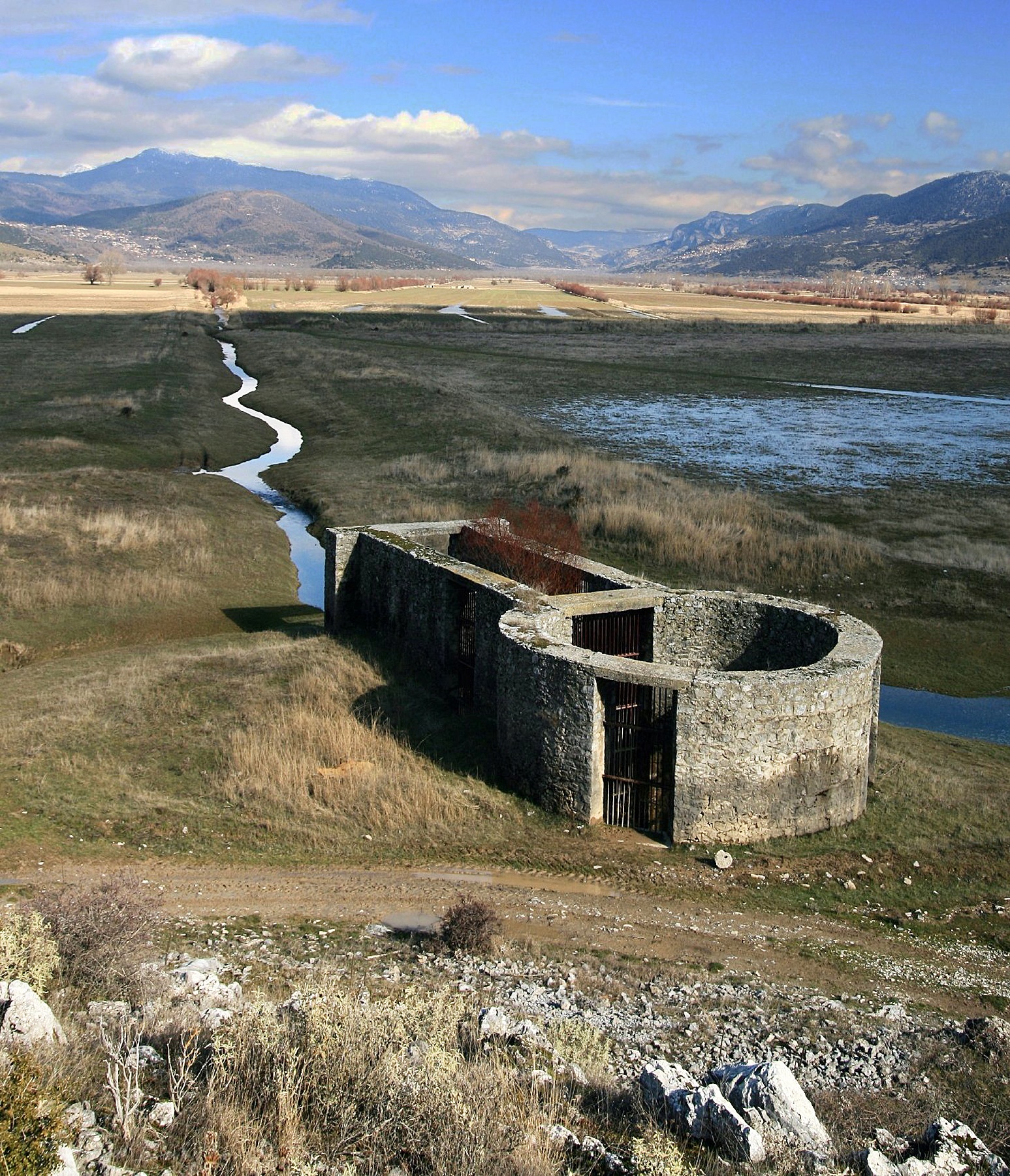 One of 3 Ponors in the southern part of the polje Feneos, Corinthia, Peloponnese. When precipitation of winters is exceptionally rich, parts of the polje become flooded even nowadays; until the second half of the 19th century there was even an almost permanent lake. Marks of the watertable at the bottom of the slopes are still visible. Construction of a system of draining ditches reduced floods. By hydrogeological tracertests in 1984 subsurface drainage through the surrounding limestone mountains emerged in a karst spring of river Ladonas, 15 km south east.